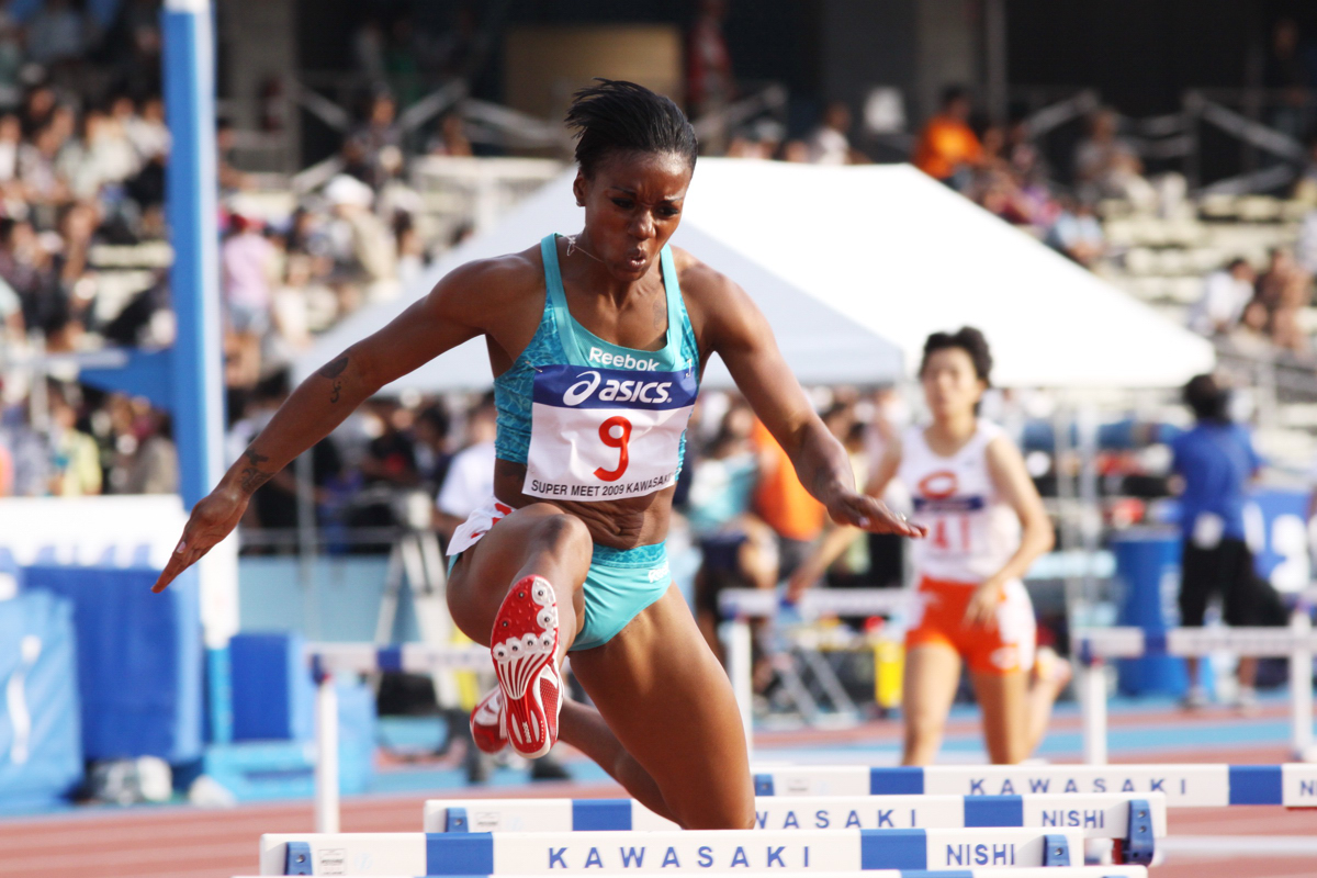 Super Meet 2009 Kawasaki